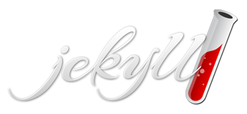 This is a logo for Jekyll.